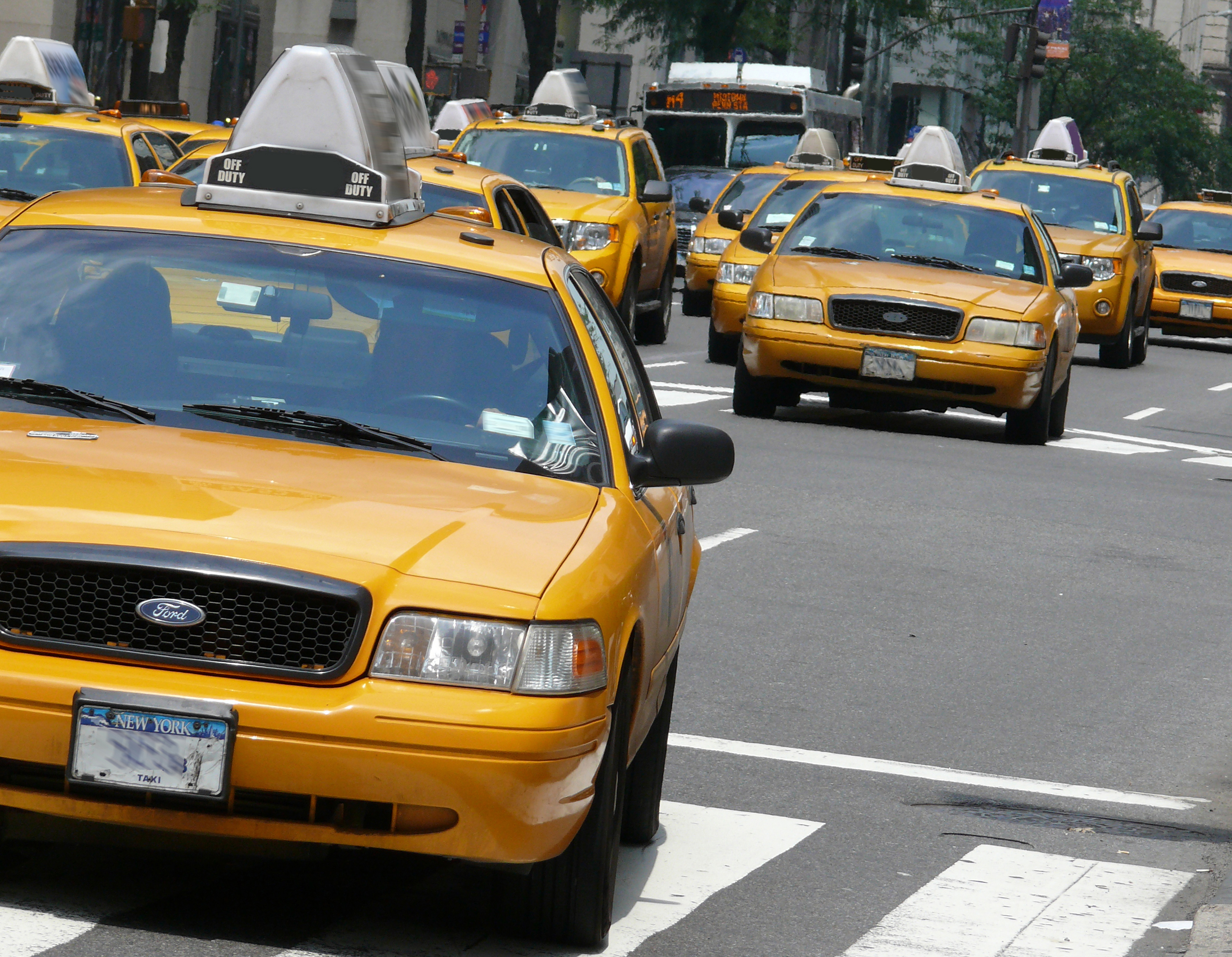 Yellow cabs in Manhattan.